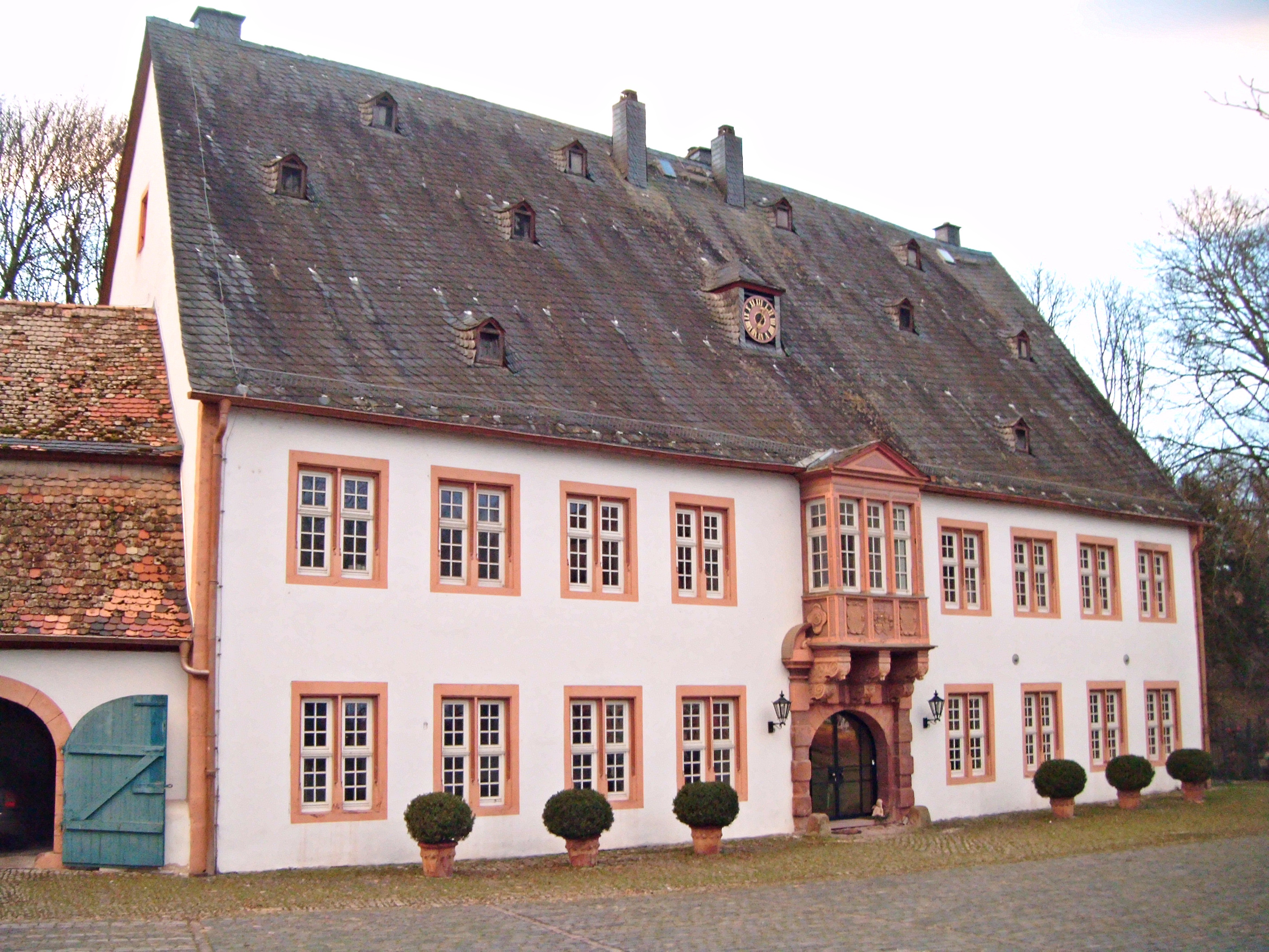 Schloss Monsheim, Hauptgebäude